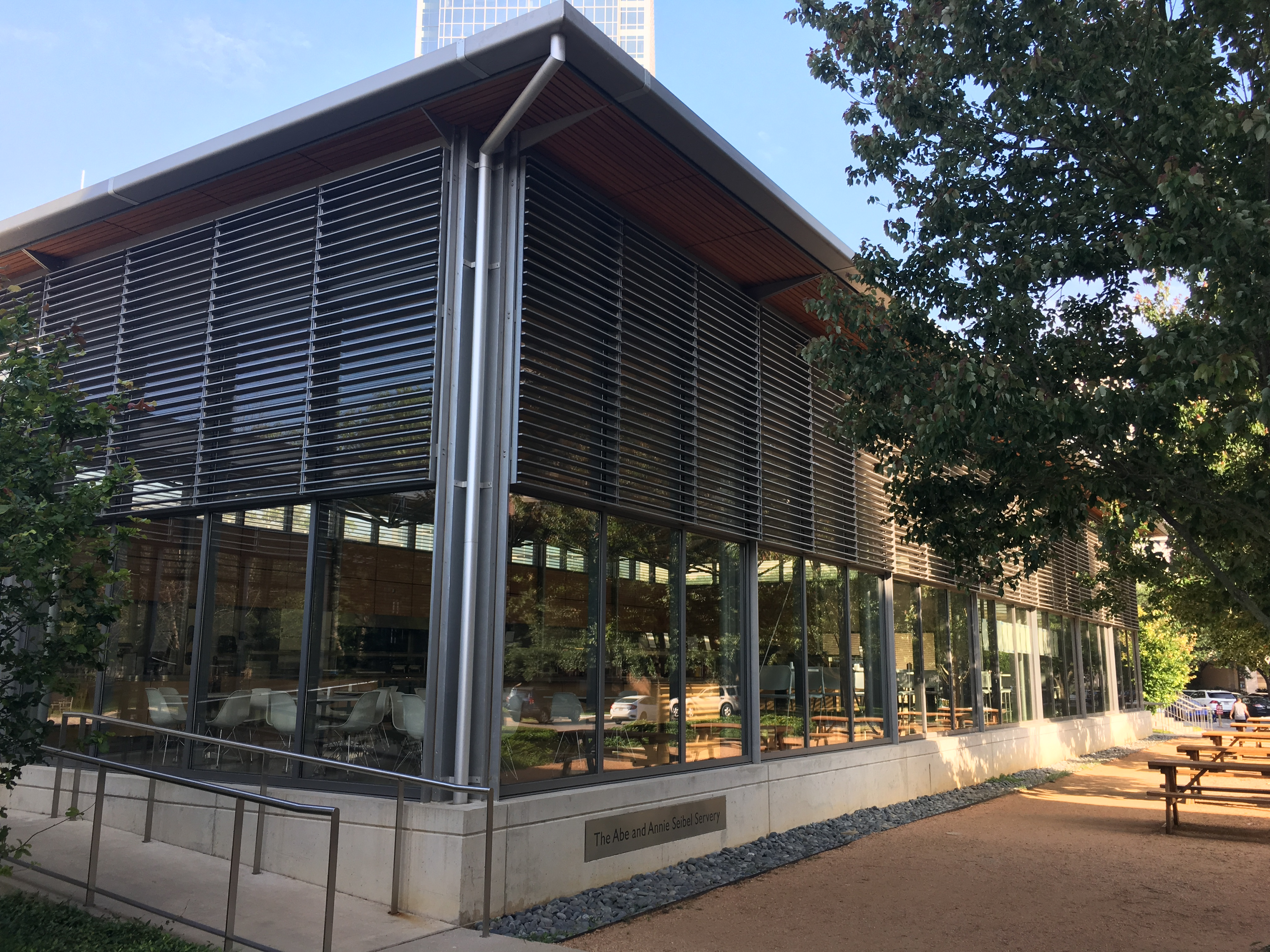 Abe and Annie Seibel Servery at Rice University, Houston, Texas. This facility provides dining services for Will Rice and Lovett colleges.